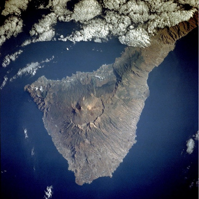 STS043-79-97 Tenerife Island, Canary Islands August 1991